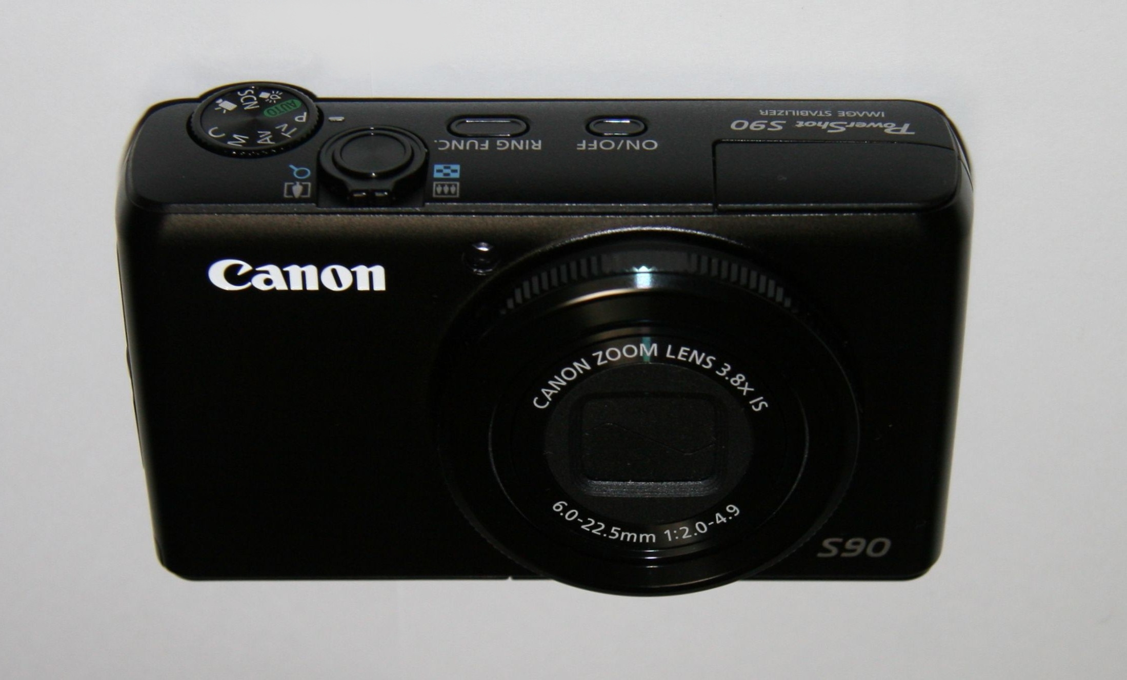 Canon PowerShot S90